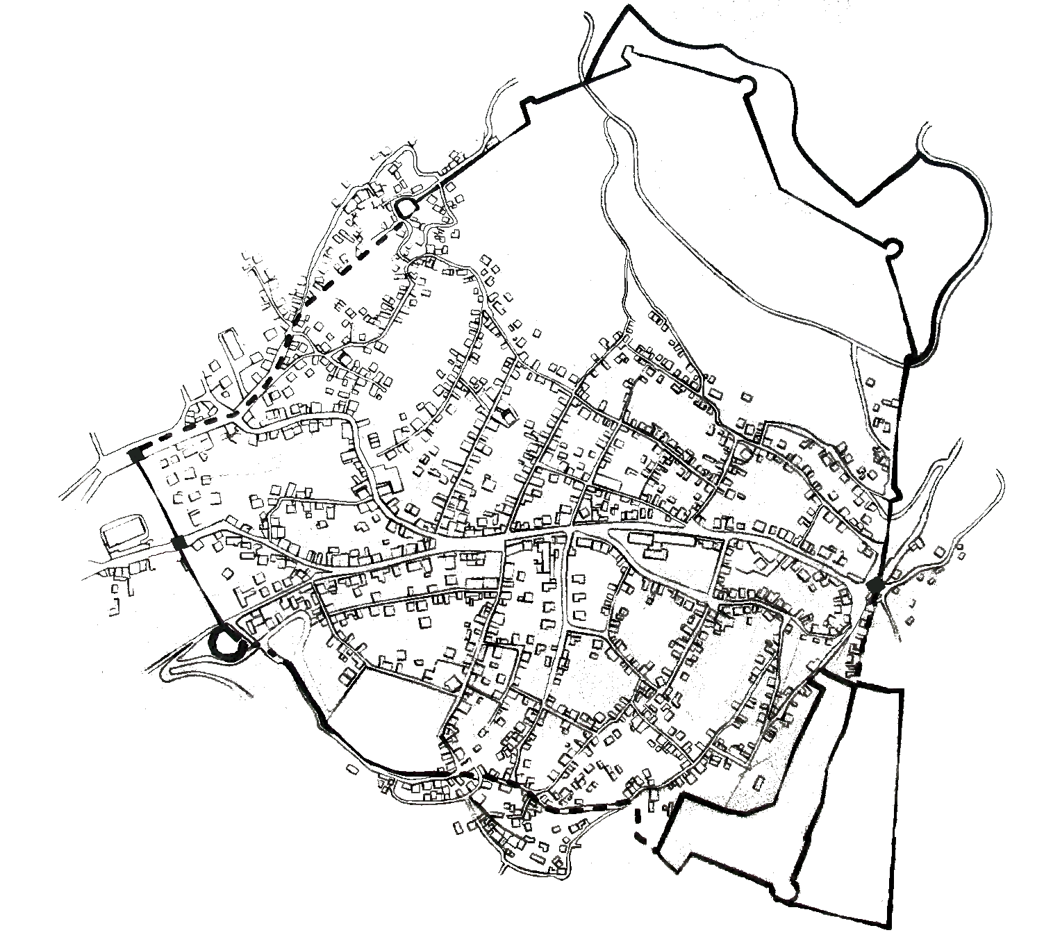 Old town Vratnik map Stari grad Vratnik mapa